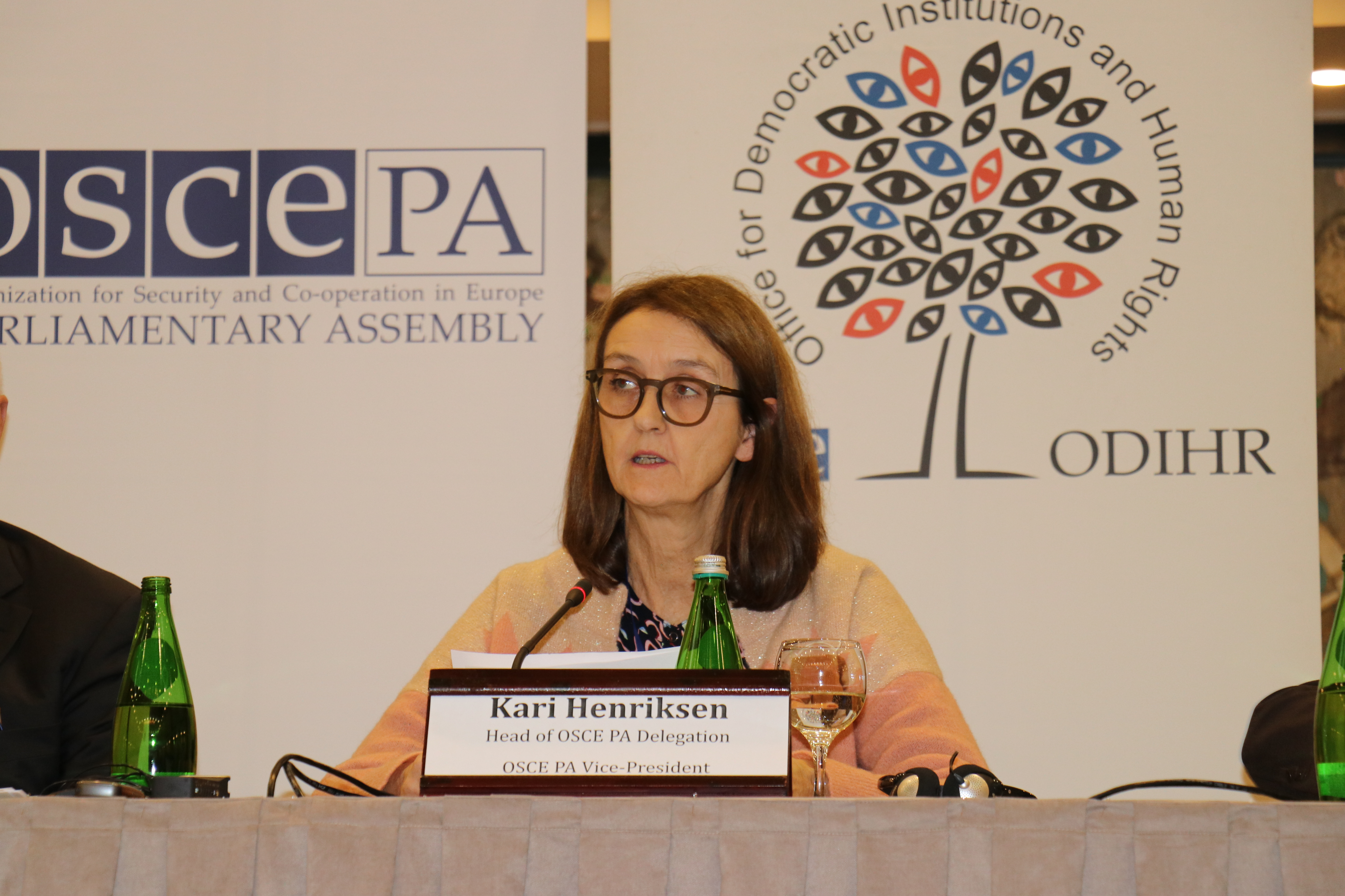 From OSCE Parliamentary Assembly photos